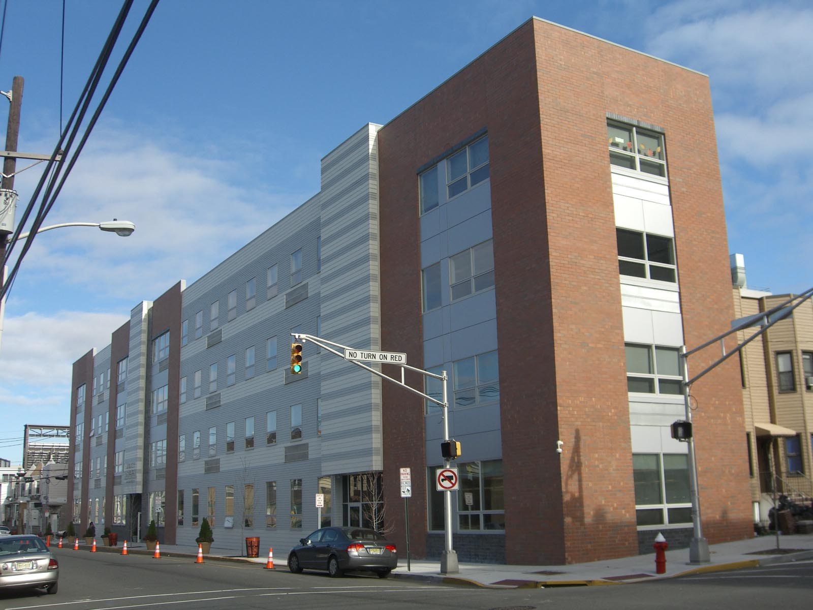 Union City High School Academy for Enrichment and Advancement, on Kerrigan Avenue and 22nd Street in Union City, New Jersey, an annex to Union City High School. Overlooking the houses in the background at the right are the rooftop athletic field's bleachers of the main building.